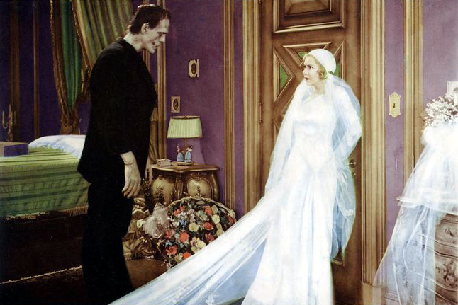 Cropped and edited lobby card for Universal Studios' Frankenstein, featuring Boris Karloff and Mae Clarke. Image is assumed to be in the public domain as no copyright is in evidence (see original below).